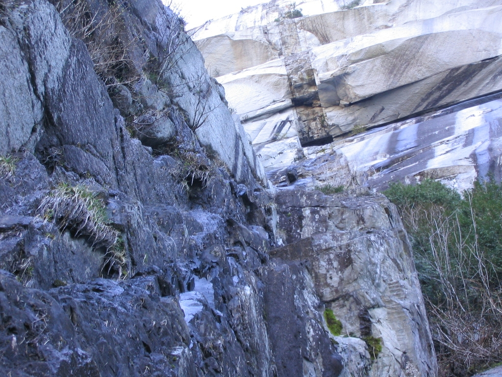 The Black Dyke as observed near the base - Stawamus Chief